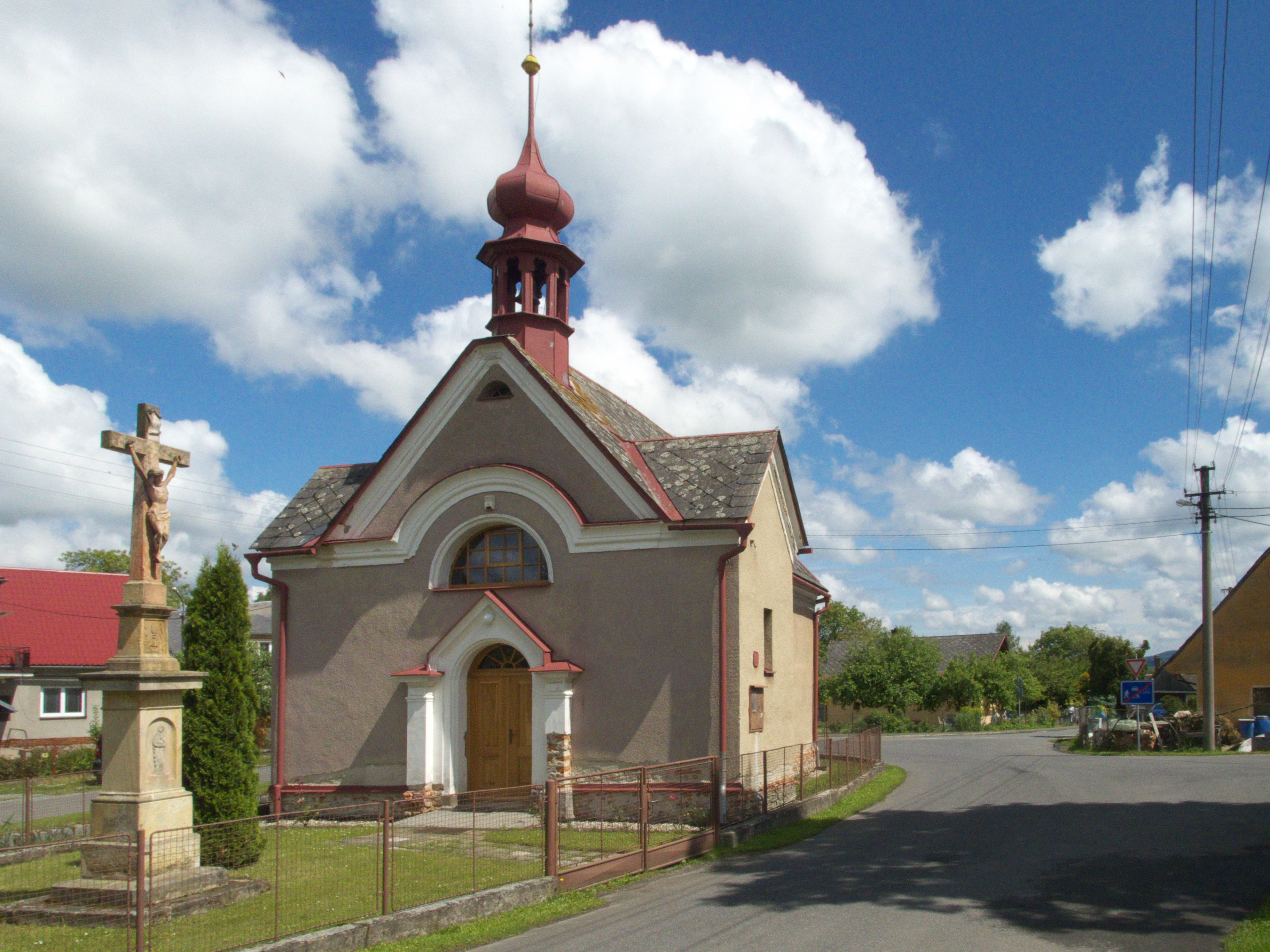 Vyšehoří